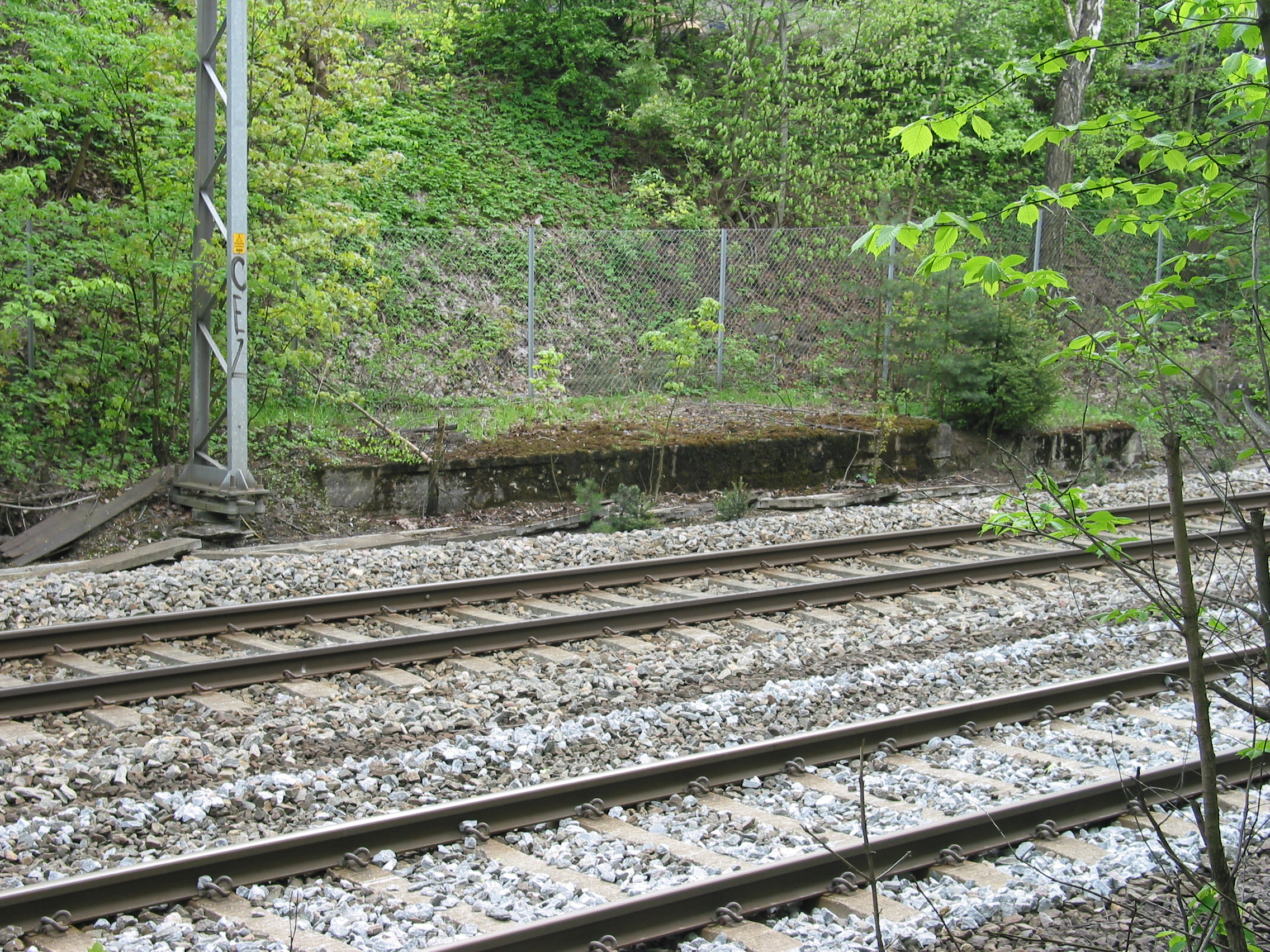 Myra station, defunct station on the Drammen Line.